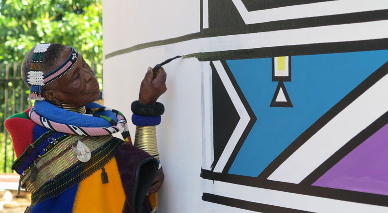 Esther Mahlangu painting a wall at her house utilizing a chicken feather brush.